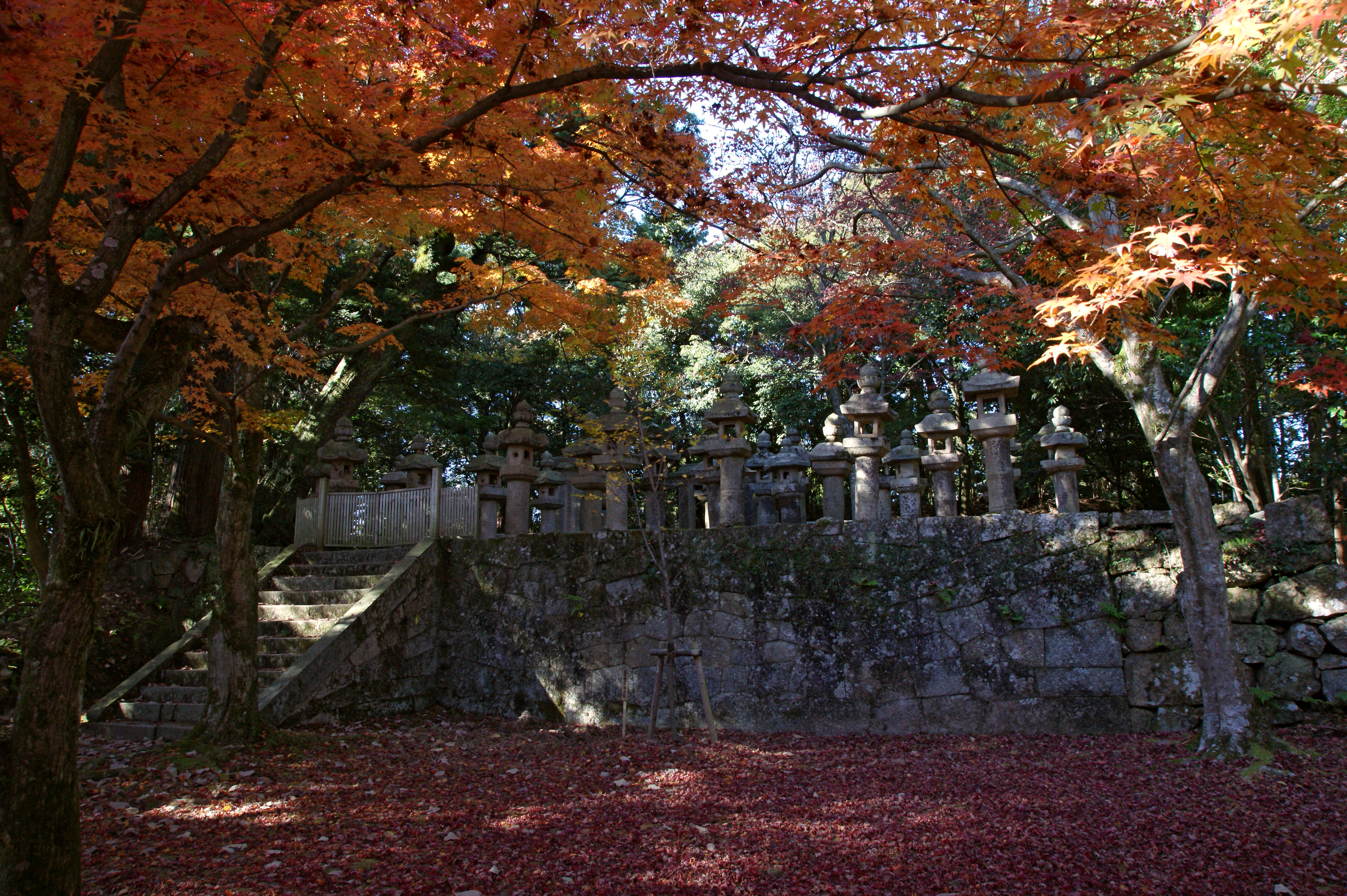 Engyoji, Himeji, Hyogo prefecture, Japan